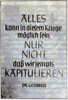 German propaganda leaflet: "All things are possible in this war, but our surrender. Dr. Goebbels"